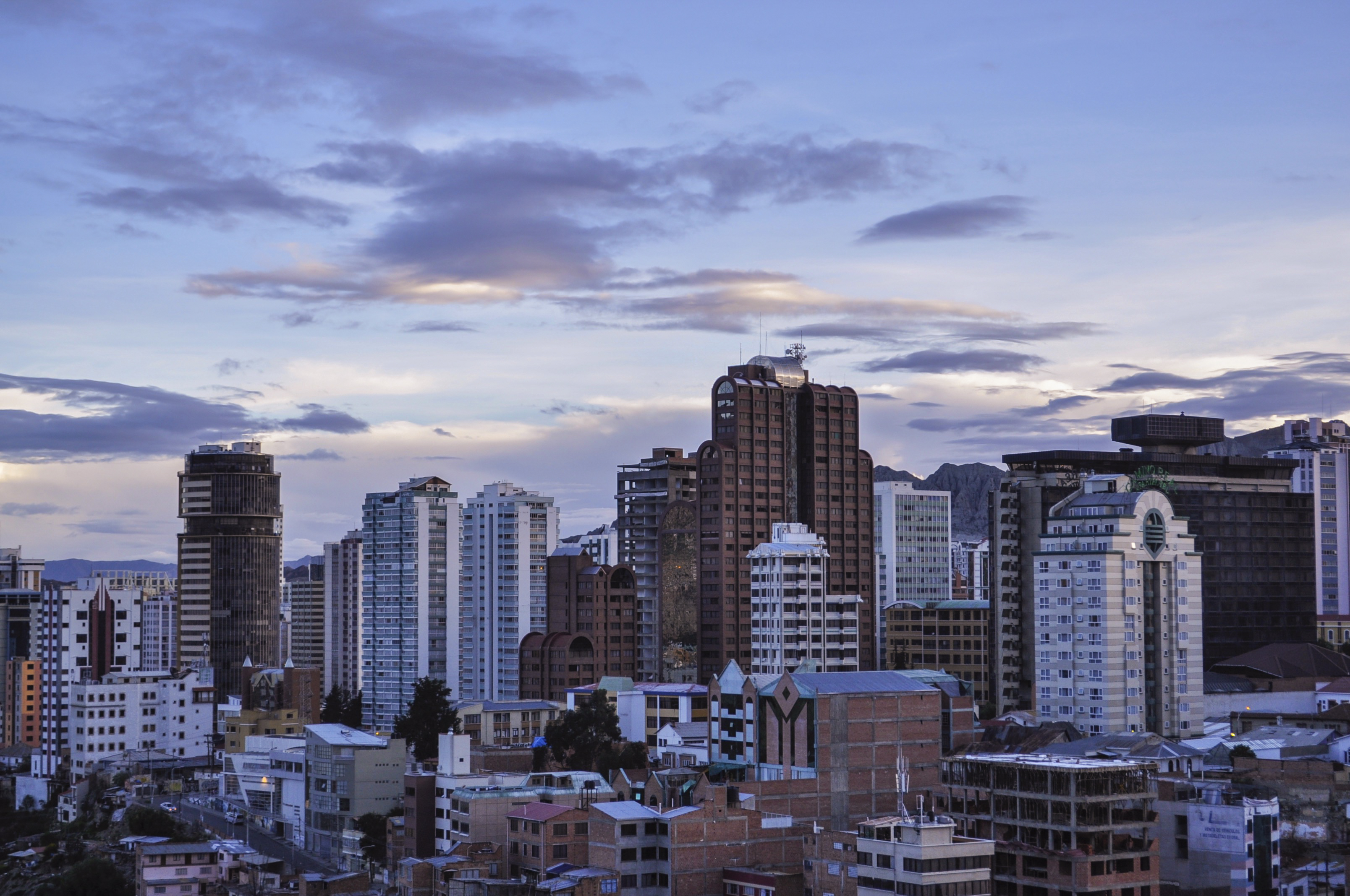 La Paz downtown at dusk.